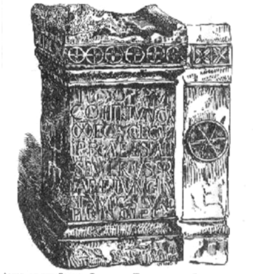 Altar dedicated to Jupiter Optimus Maximus from Castlesteads (Hadrianswall). AD 43-410, Material: Red sandstone, Description: On left side thunderbolt, on right wheel, Dimensions: W. 0.635 × H. 1.27, find 1818, Translation: To Jupiter, Best and Greatest, the Second Cohort of Tungrians, one thousand strong, part-mounted, publicly praised, under the command of Albius Severus, prefect of the Tungrians, (set this up) under the direction of Vic … Severus, princeps.